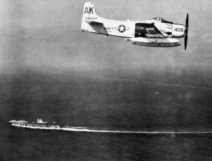 A U.S. Navy Douglas AD-6 Skyraider (BuNo 134484) from Attack Squadron VA-104 "Hell's Archers" in flight. VA-104 Det.42 was assigned to Carrier Air Group 10 (CVG-10) aboard the aircraft carrier USS Forrestal (CVA-59), visible below, for a deployment to the Mediterranean Sea from 2 September 1958 to 12 March 1959.